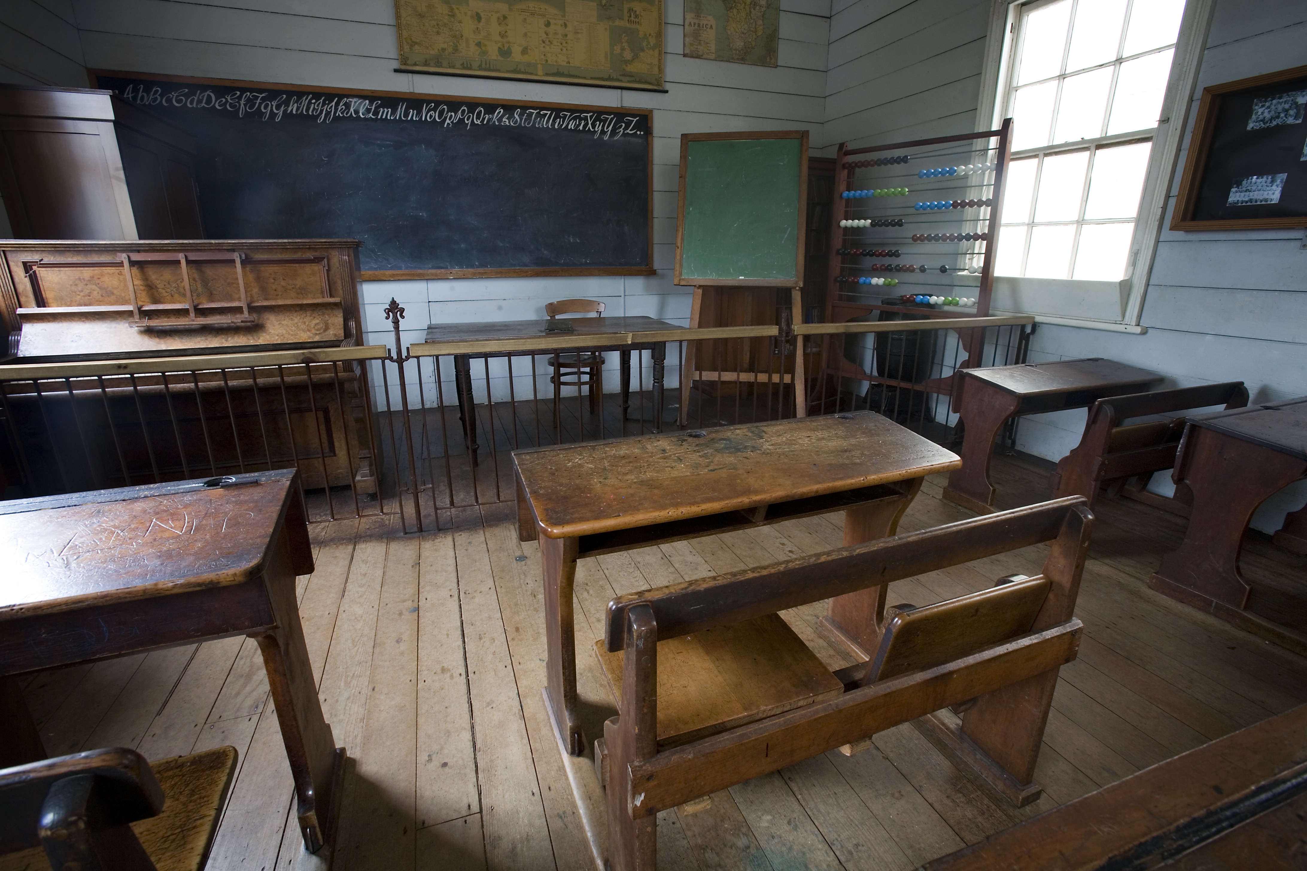 A 19th century classroom with wooden benches, a piano and a blackboard, Auckland, New Zealand